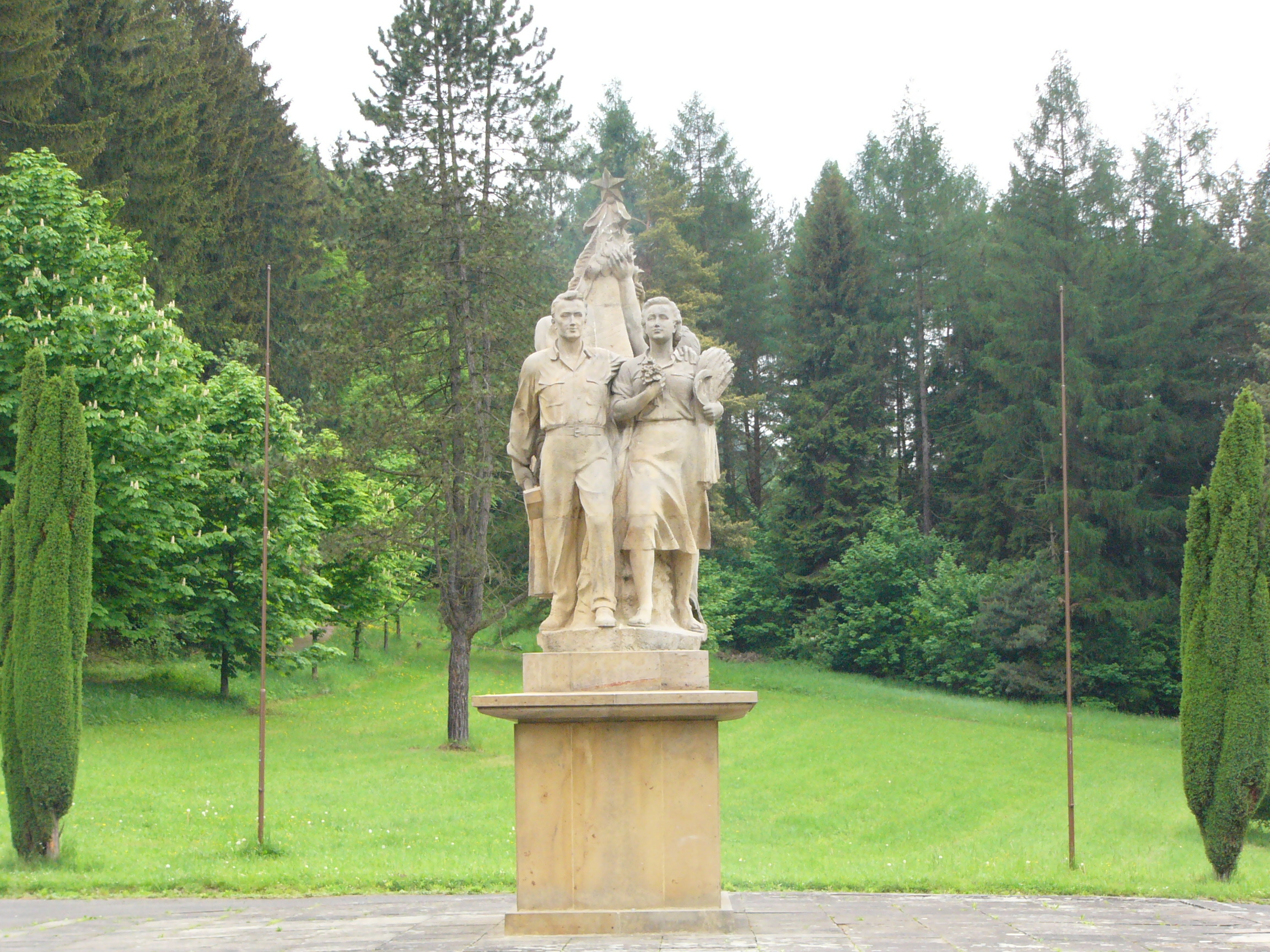 memorial of victims of world war II in Javoříčko, Czech Republic, by sculptor Jan Tříska and by architect Miroslav Putna